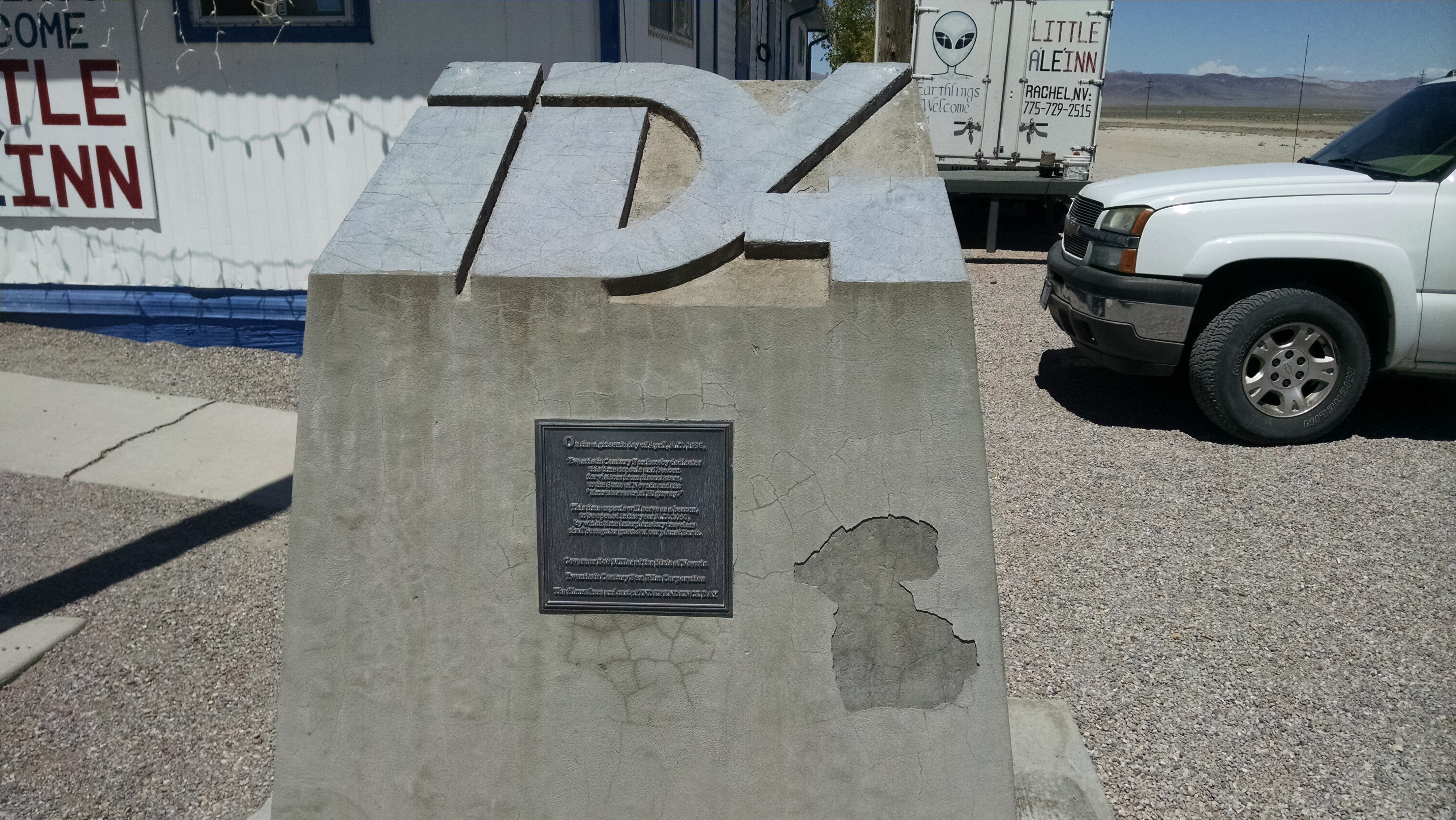 ID4 time capsule outside the inn in Rachel, NV